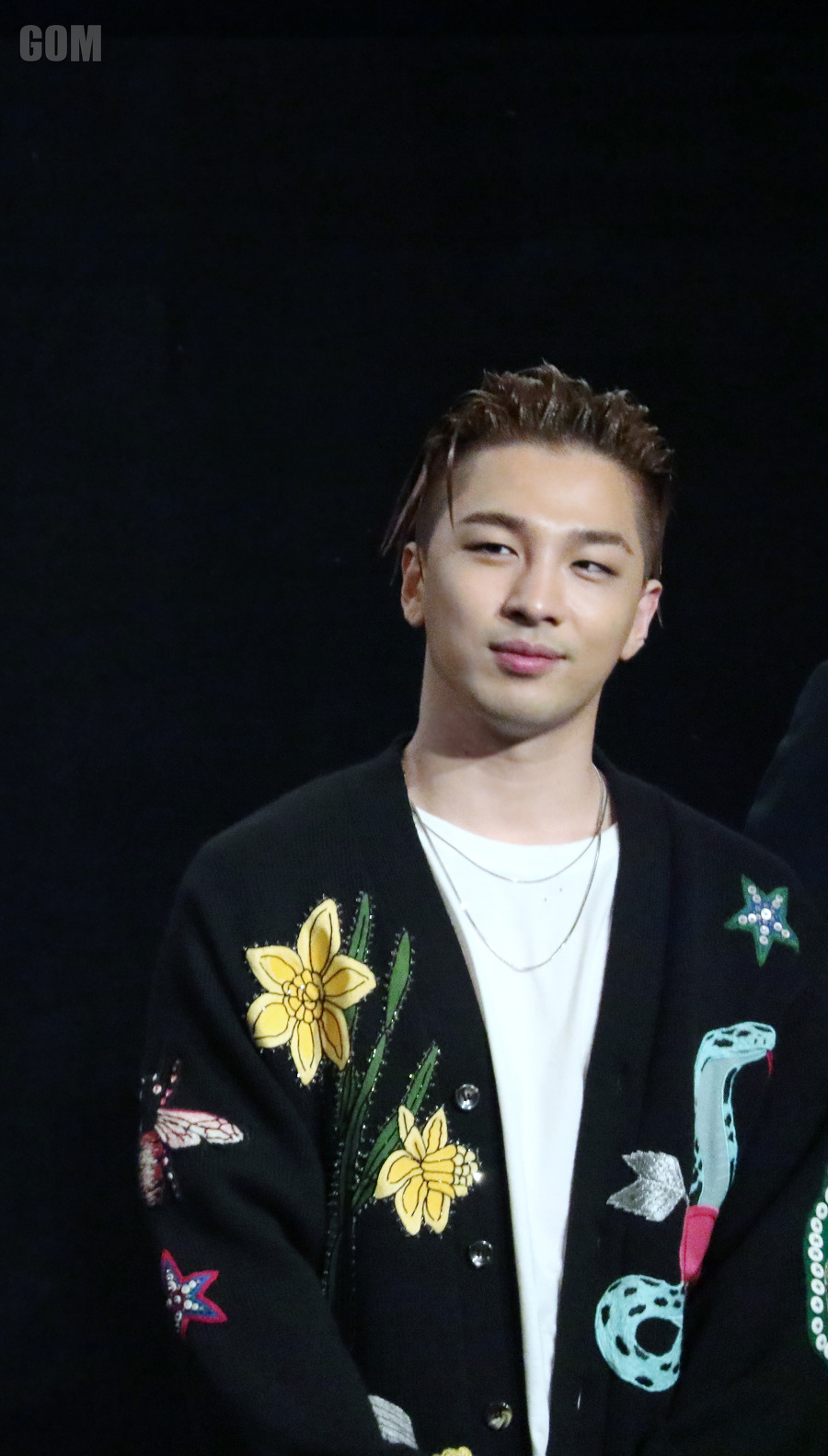 Big Bang members in the premiere of their movie "MADE" in June 28, 2016